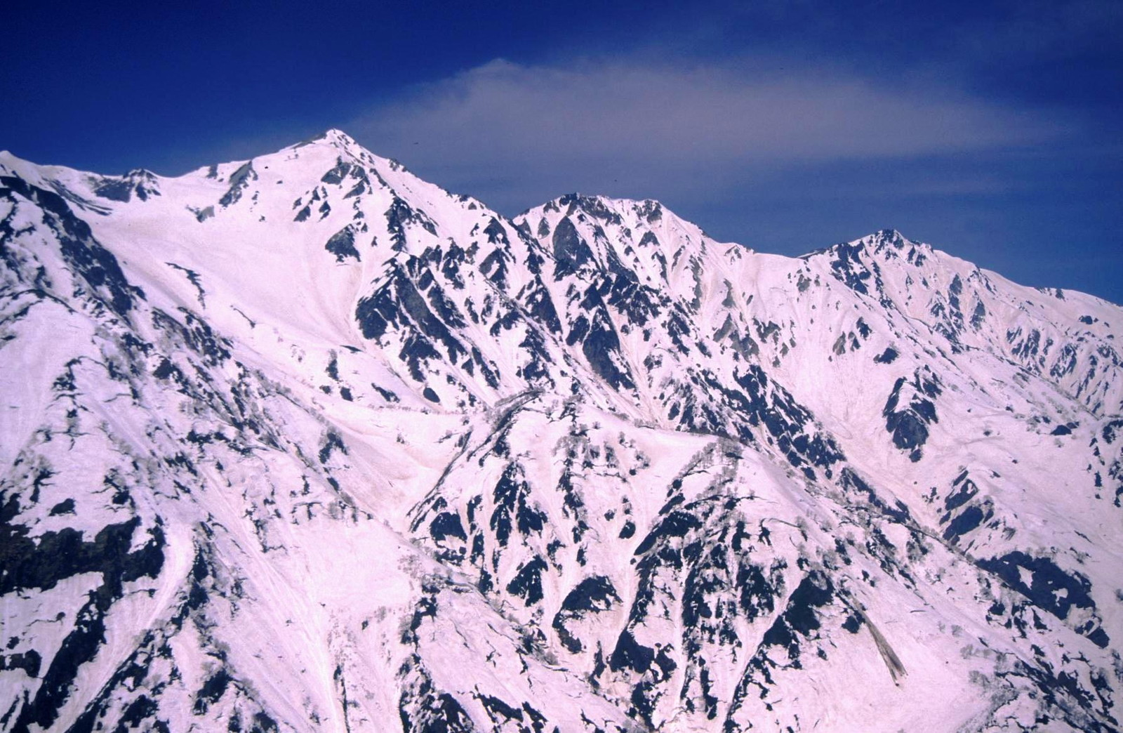 Mount Shirouma from Mount Karamatsu